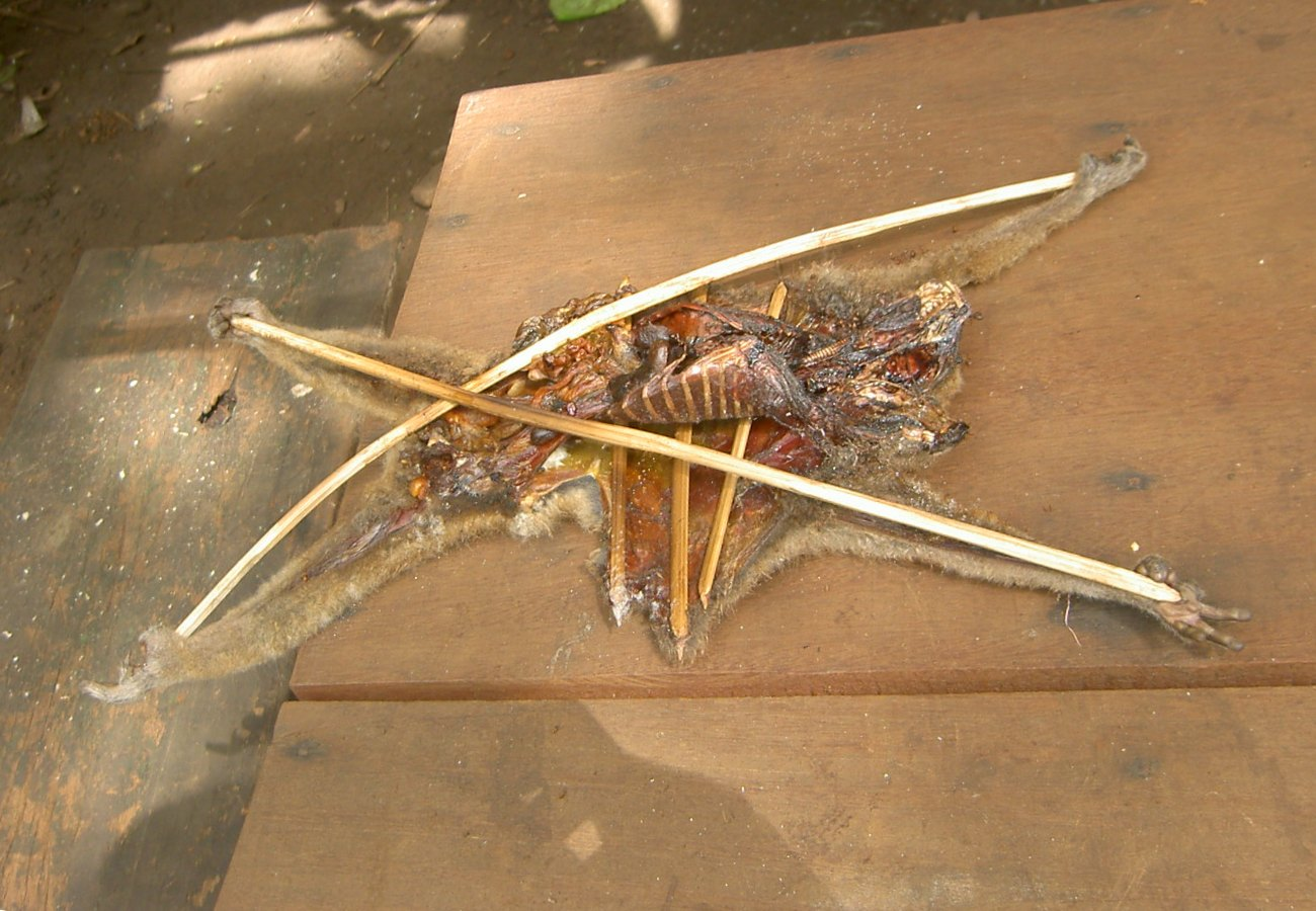 A dried pygmy slow loris (Nycticebus pygmaeus), cut open to dry in the sun. Bamboo pieces are used to stake them out. Slow lorises are commonly dried and sold as traditional medicine. Most people prefer to buy dried specimens and then later prepare them for specific uses. Slow lorises are said to cure 100 illnesses.